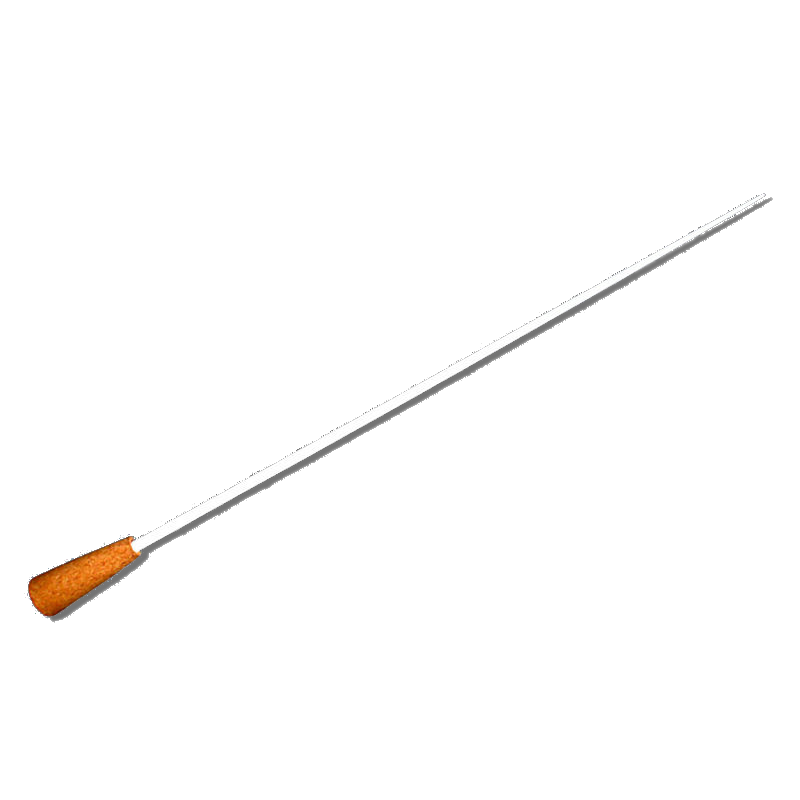 Conductor's staff with transparent background.